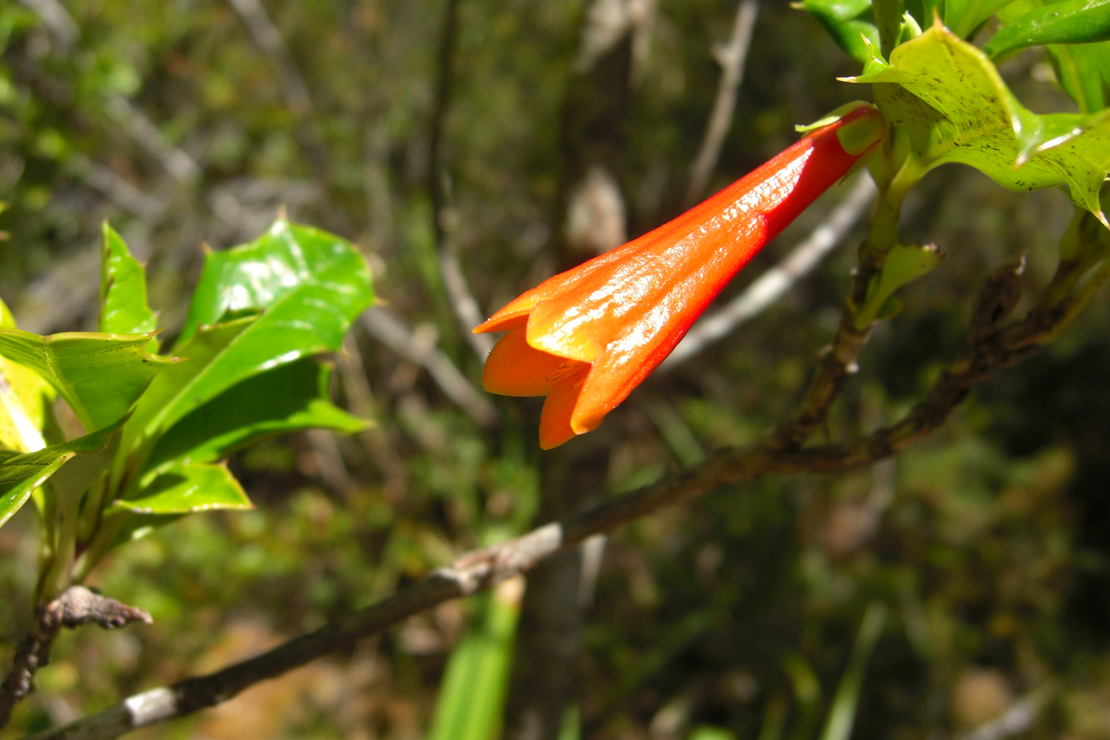 Desfontainia spinosa Ruiz & Pav. 20090101 Parque Nacional Chiloe, Chile I thought for sure this was a holly tree the first time I saw it with just an old fruit. Once you are fortunate enough to see the beautiful flower, however, all doubt is removed!